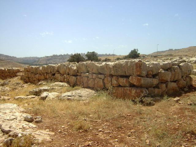 Kubur Bani Yisra’il, (trans. Tombs of the Children of Israel), huge stone structures which rise from a rocky plateau overlooking Wadi Qelt, about 3.5 miles northeast of Jerusalem.